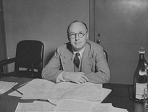 Floyd Bostwick Odlum (1892 – 1976), a wealthy lawyer and industrialist